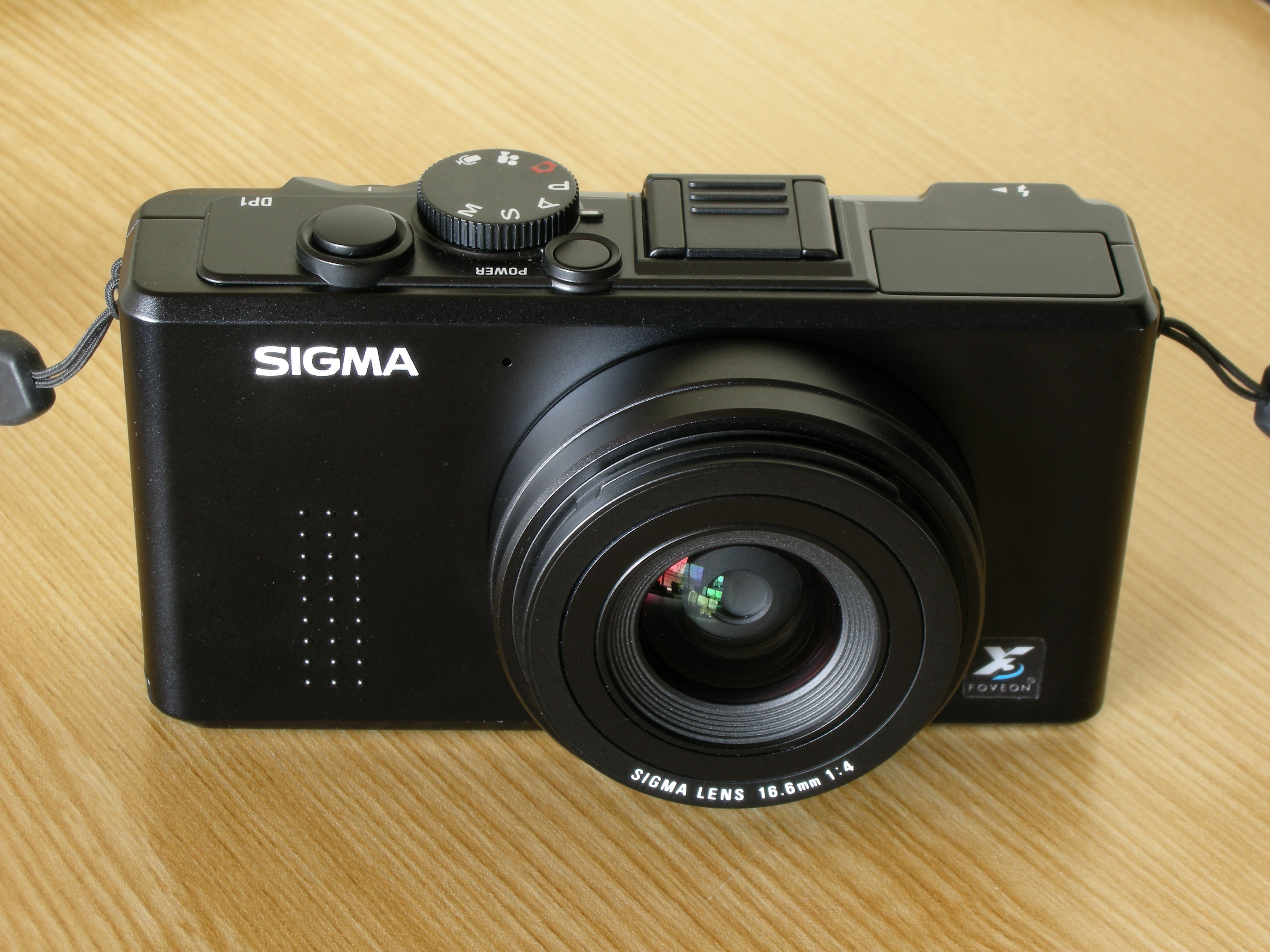 Sigma DP1